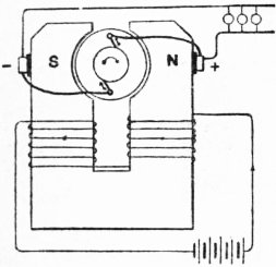 Separate excitation of an electromagnet from some other source of direct current, which may be either a primary or a secondary battery or another dynamo.